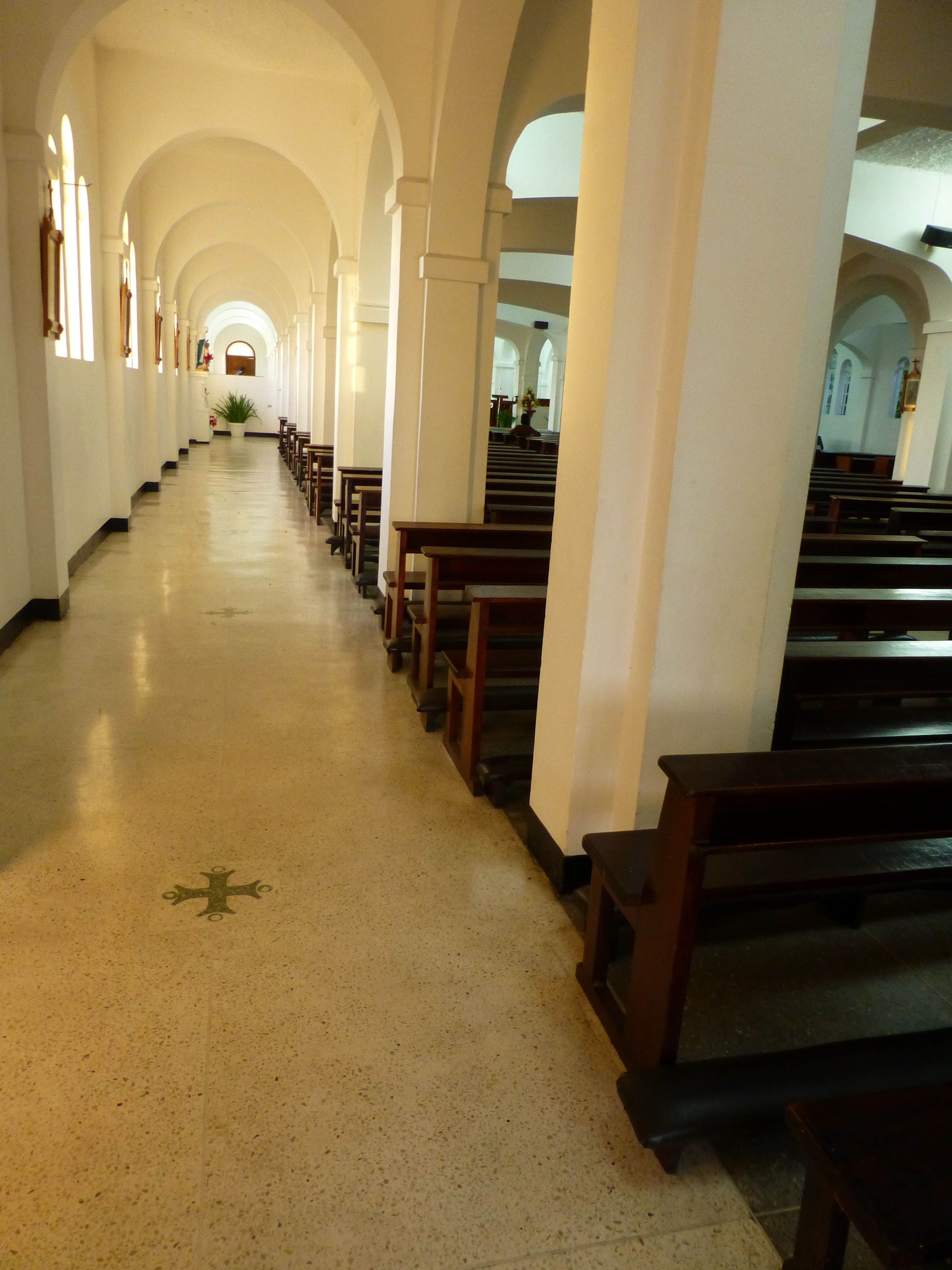 Abbey of Our Lady of Exile, Mount St. Benedict, St. Augustine, Trinidad.